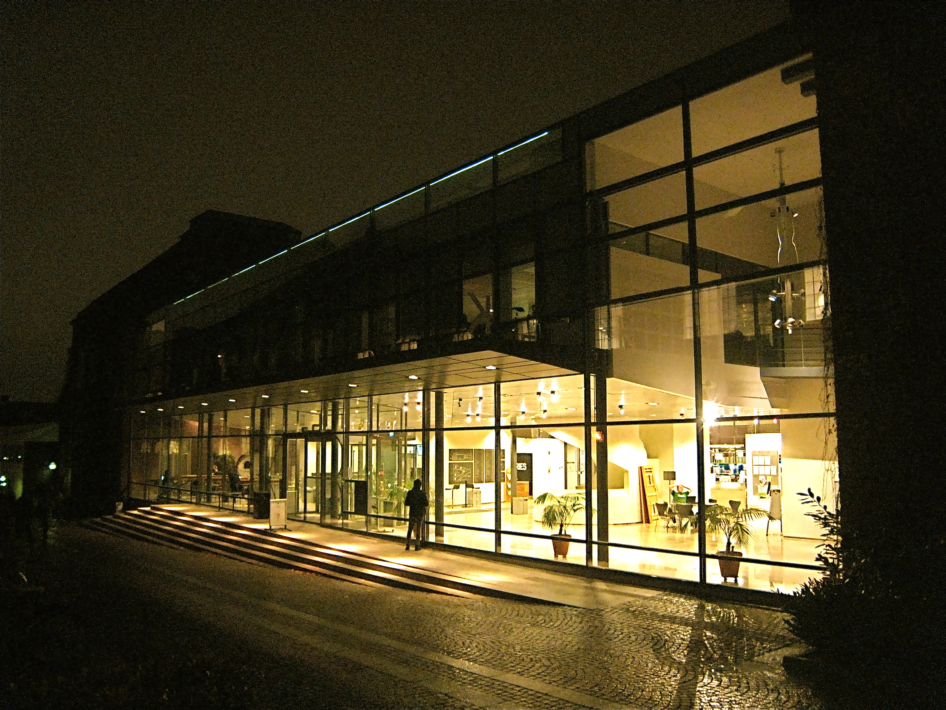 KTHB